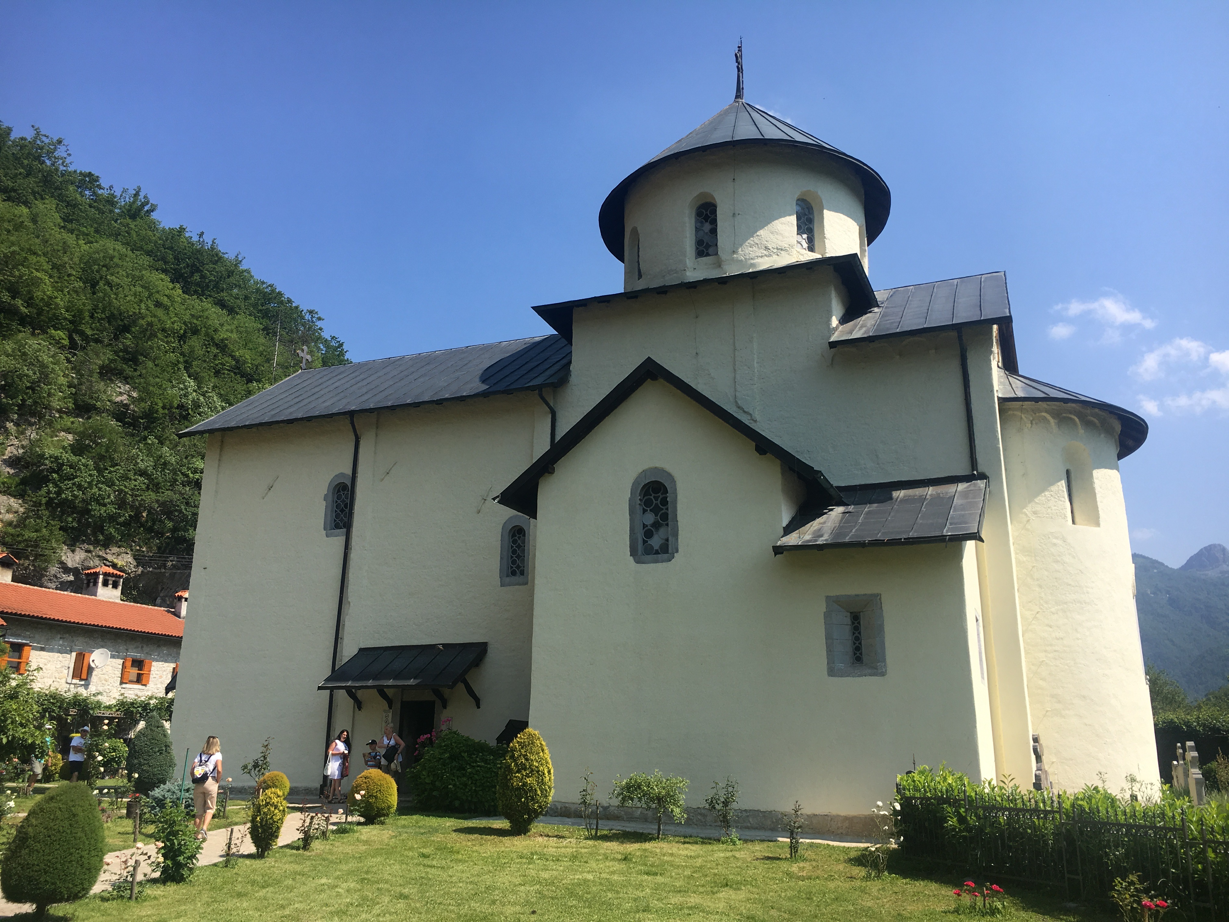 Morača monastery in Montenegro